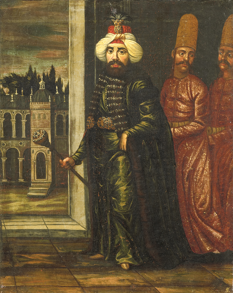 Portrait of Sultan Ahmed III (1703-1730) with two followers, left the palace. Part of a series of paintings with Turkish subjects from Turkey to the Netherlands by Cornelis Calkoen the ambassador and his cousin Nicholas in 1817 gelegateerd to the Executive Board of the Levant Schenardi Commerce in Amsterdam.